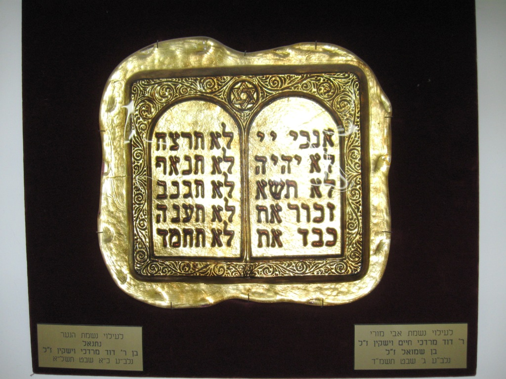 Ten Commandment made from Murano glass at Kedumim Synagogue_STIBEL.jpg